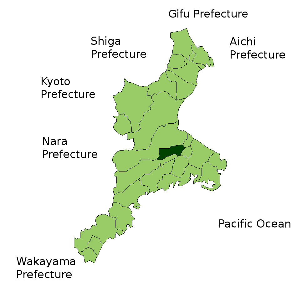 Location Map of Taki in Mie Prefecture, Japan